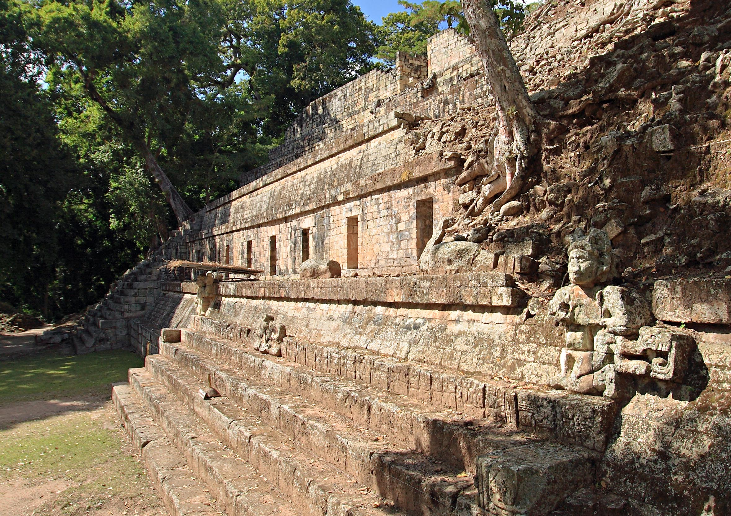 A view of the southern facade of Temple 11 from the East Court of Copan